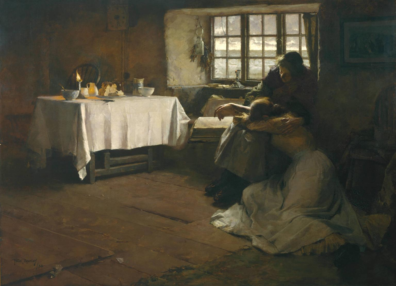 "A young wife kneels in despair beside her old mother, who has been trying to comfort her during the long watches of a tempestuous night. A Bible lies open before them. Through the cottage window is seen a raging sea by the light of a cheerless dawn breaking through a stormy sky. On the window-sill a candle that has burnt all night as a beacon has just flickered out." – Descriptive and historical catalogue of the pictures and sculpture in the National Gallery, British art, 1907. Exhibited at the Royal Academy 1888 with the following quotation from John Ruskin: "Human effort and sorrow going on perpetually from age to age; waves rolling for ever and winds moaning, and faithful hearts wasting and sickening for ever, and brave lives dashed away about the rattling beach like weeds for ever; and still, at the helm of every lonely boat, through starless night and hopeless dawn, His hand, who spreads the fisher's net over the dust of the Sidonian palaces, and gave unto the fisher's hand the keys of the kingdom of heaven."